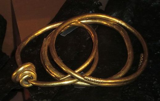 Three armrings made of gold, dated to 400 - 550 A.D. Found at Våmb, in Skövde, Sweden. On display at the Swedish Museum of National Antiquities in Stockholm.